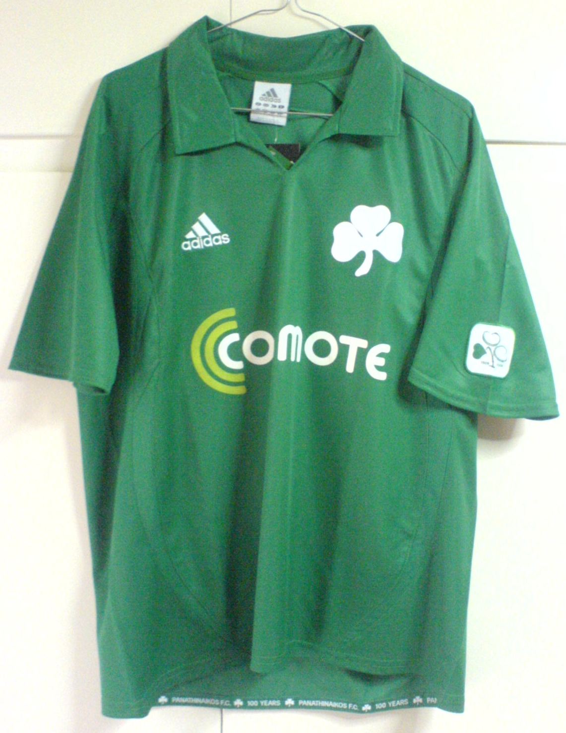 Panathinaikos centenary shirt